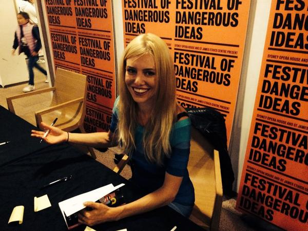 Kajsa Ekis Ekman at the Festival of Dangerous Ideas